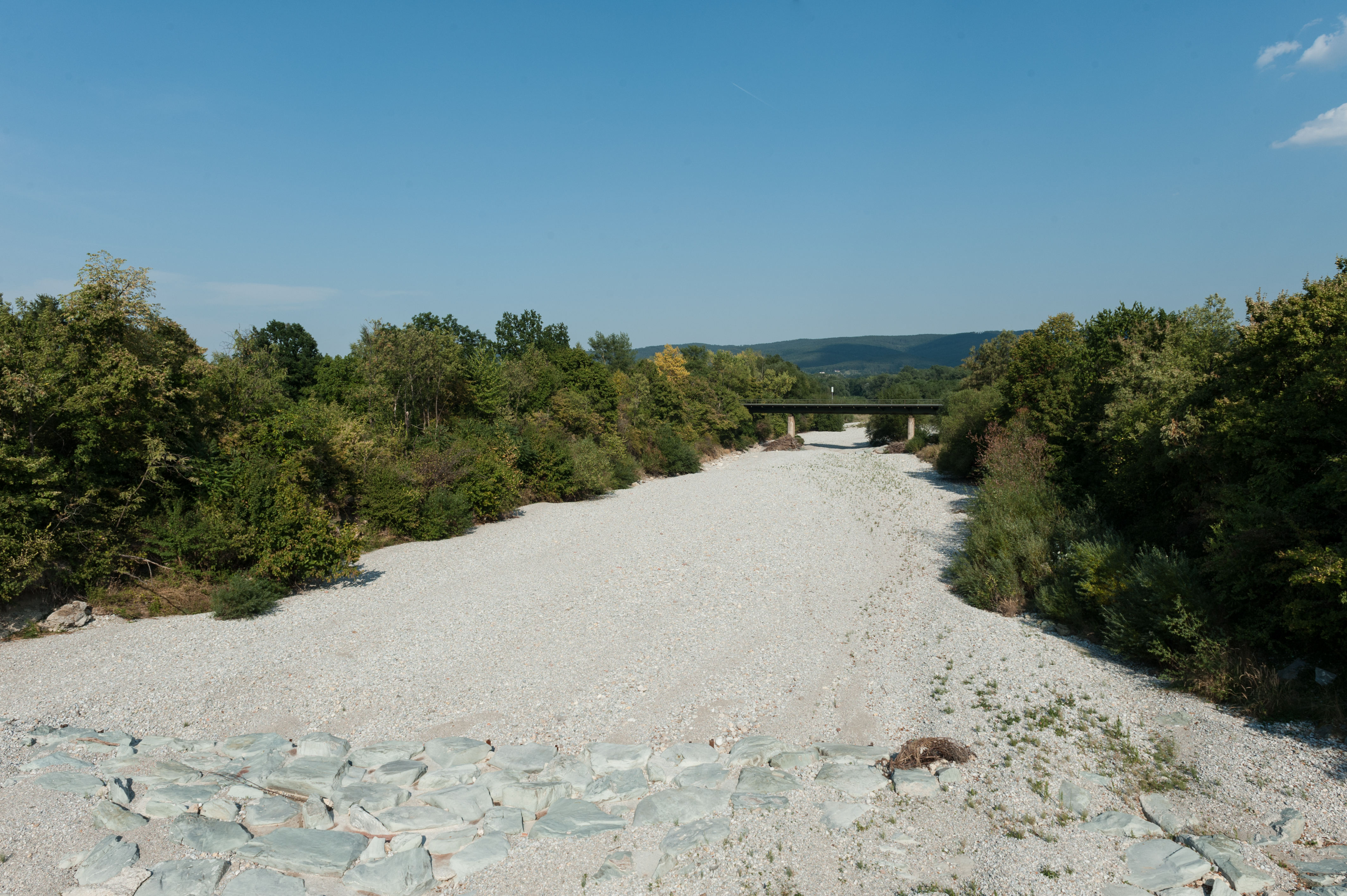 Schwarza river without water near bei Bad Erlach in summer hot wave of 2015